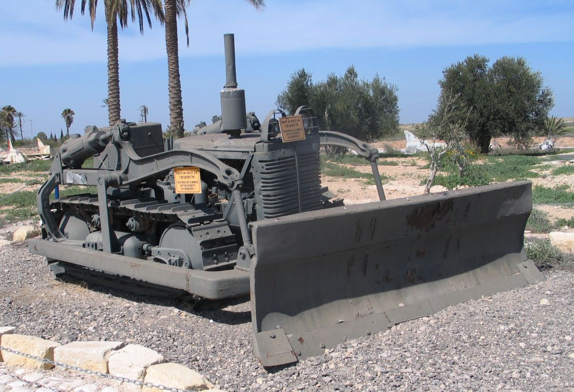 International TD9 bulldozer at Muzeyon Heyl ha-Avir, Hatzerim airbase, Israel. 2006. Source: Photo by me, User:Bukvoed.